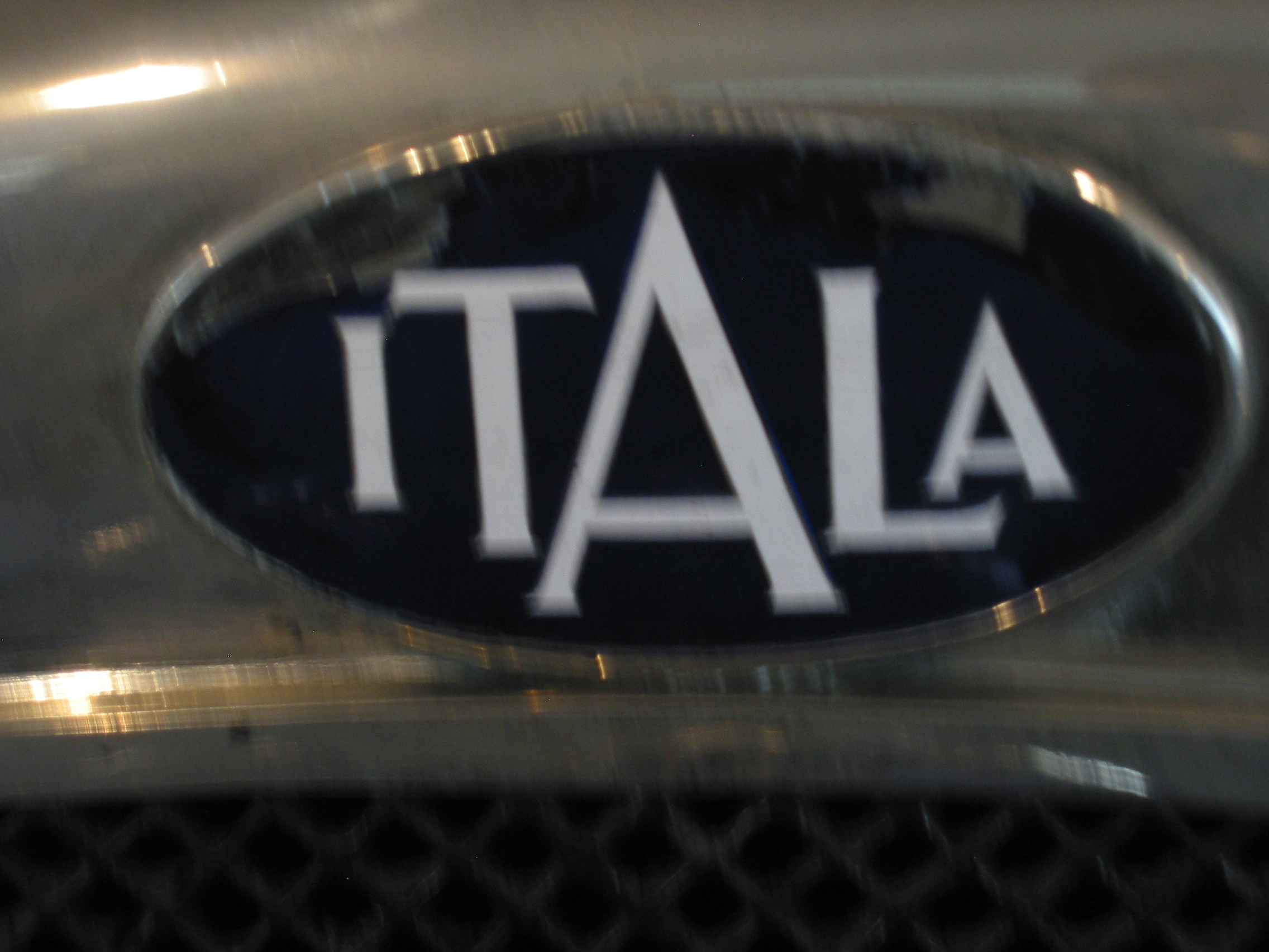 Emblem Itala